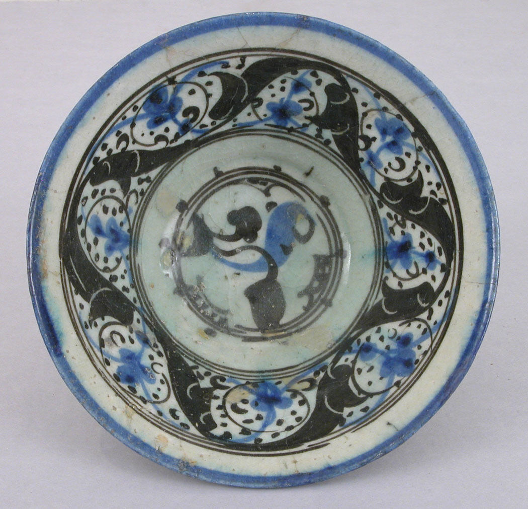 TitleBowl with Vegetal Motifs - Raqqa (Syria) - 12th century - MET - Inventory number 42.113.3Description ceramics Date12th centuryMediumStonepaste; painted and incised under transparent glazeDimensionsDiam. 9 1/8 in. (23.2 cm) H. 4 5/8 in. (11.7 cm)Current location Metropolitan Museum of Art Native nameMetropolitan Museum of ArtLocationManhattan, New York City, United States of AmericaCoordinates40° 46′ 46″ N, 73° 57′ 47″ W Established1870Web page control : Q160236 VIAF: 126238294 ISNI: 0000 0001 2097 3481 ULAN: 500125157 LCCN: n79129629 NLA: 36247933 WorldCat Islamic Art, gallery 454 (Egypt and Syria, 10th–16th centuries)Accession number42.113.3Place of creationRaqqa (Syria)Credit lineGift of Estate of J. Zado Noorian, 1942Notes Ayyubid period Syrian potters, like their counterparts in Iran, developed a version of black‑and‑blue underglaze‑painted ceramics, capitalizing on the properties of stonepaste to provide a white background (copy from : Interior decoration consists of a hillock with three leaves circumscribed by three concentric circles with contoured fillers in a roundel. The outer-most circle is highlighted by evenly spaced dots (dotted double circle). The cavetto bears a band with two reciprocal vegetal designs, one highlighted with incising, on a ground of dots, commas, and curving lines. The rim is circumscribed by a single band. The exterior has only a single circular band at the middle of the wall. The bowl is painted in black and cobalt blue under a clear colorless glaze with a greenish tint (copy from : Jenkins-Madina, Marilyn. "Ceramics of Ayyubid Syria." In Raqqa Revisited. New York; New Haven: The Metropolitan Museum of Art, 2006. pp. 160, 166-7, 222, ill. MMA45) (color), pp. 169, 173.. )References Jenkins-Madina, Marilyn. "Ceramics of Ayyubid Syria." In Raqqa Revisited. New York; New Haven: The Metropolitan Museum of Art, 2006. pp. 160, 166-7, 222, ill. MMA45 (color), pp. 169, 173.Source/Photographer ceramics